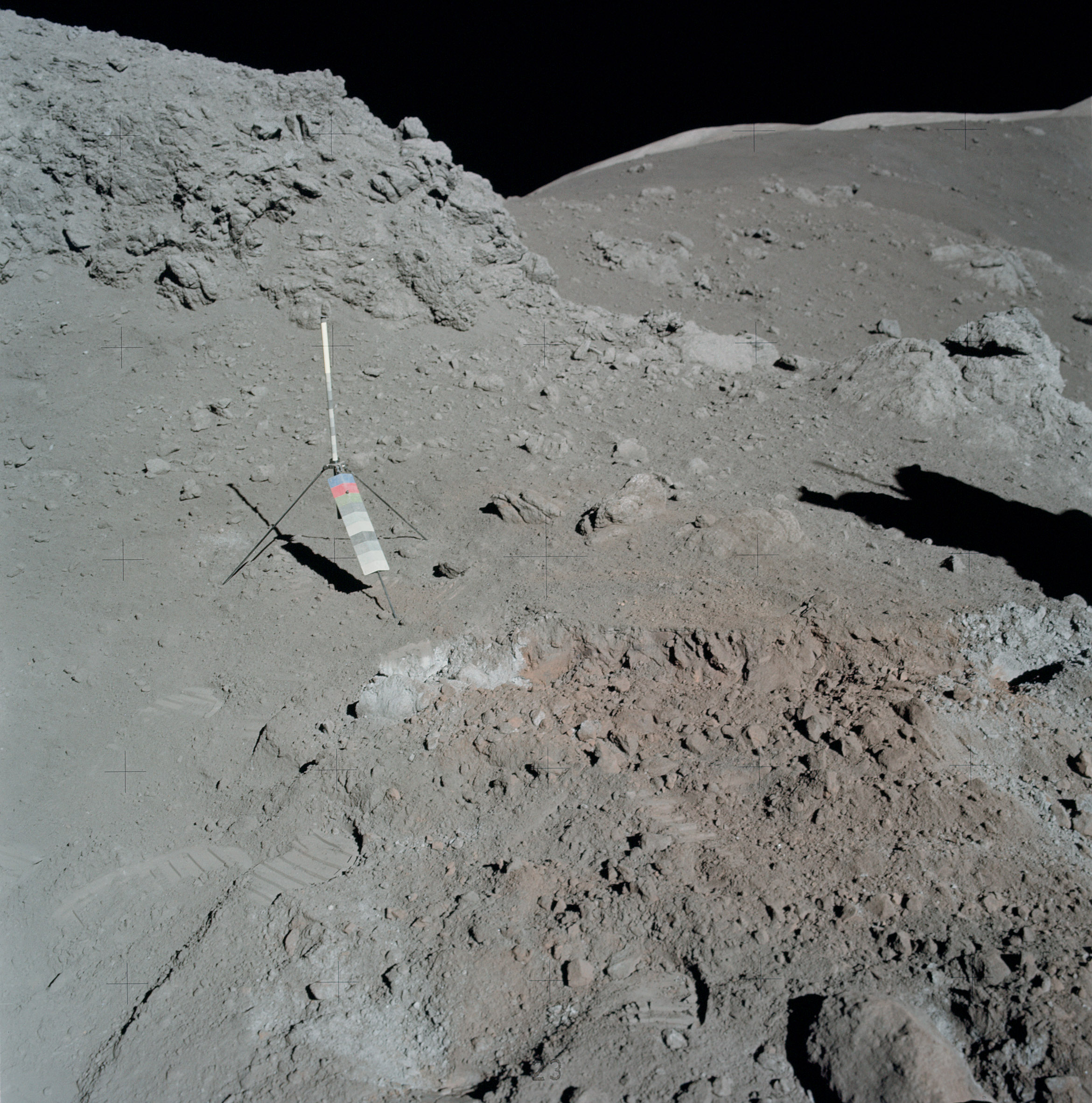 Apollo 17 the trench with the orange soil at Station 4 (Crater Shorty)